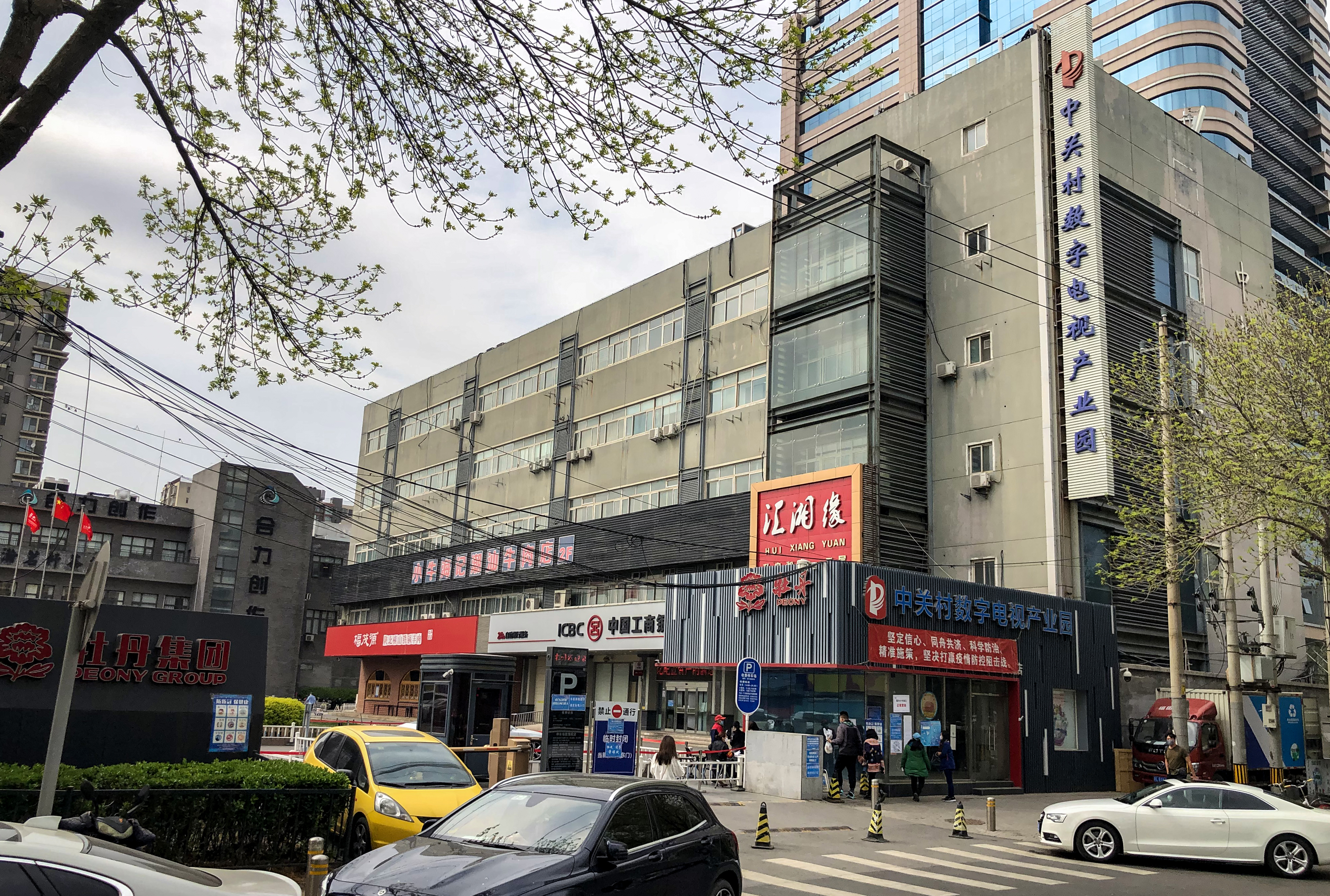 Mudanyuan is named after this television factory.